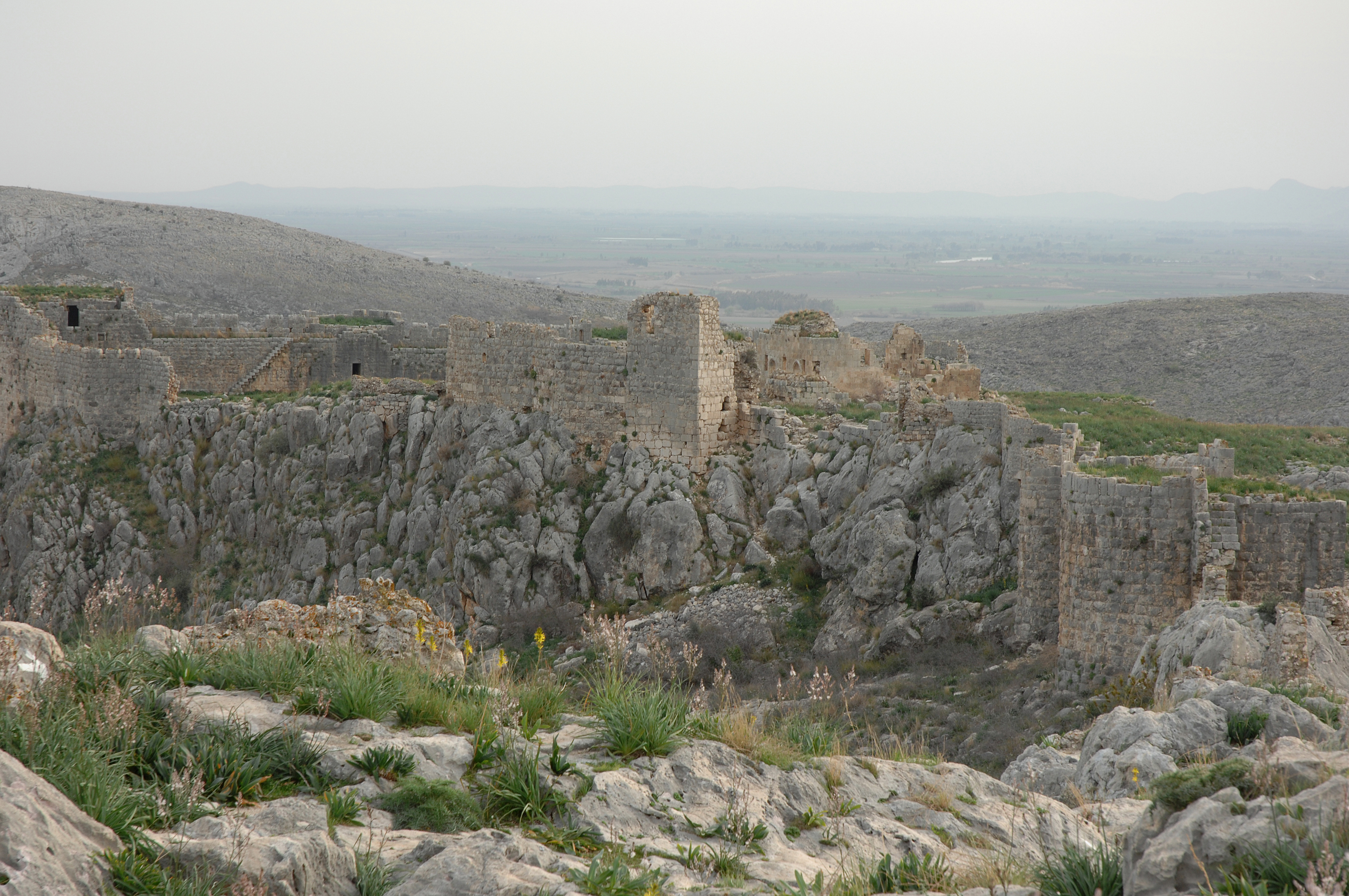 The view of the outer bailey and the constructions on its northern edge, seen from the rock at the foot of the bastion defending the inner fortress (or keep). One of a series of pictures taken during a visit from end to end. The location is imported later, and only at some pictures, I use the centre of a picture as the spot to locate, and not the spot where a picture was taken (the more usual method). Descriptions are based on sources such as: ‘Guides Bleus: Turquie’ – Edition 1986 , ‘Guide Fodor: Turquie’ - Edition 1988 & Personal Visits (by a correspondent of the author in 1985-1999).